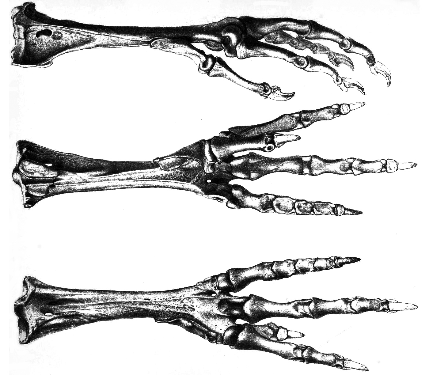 Skeletal foot of the Oxford Dodo specimen.